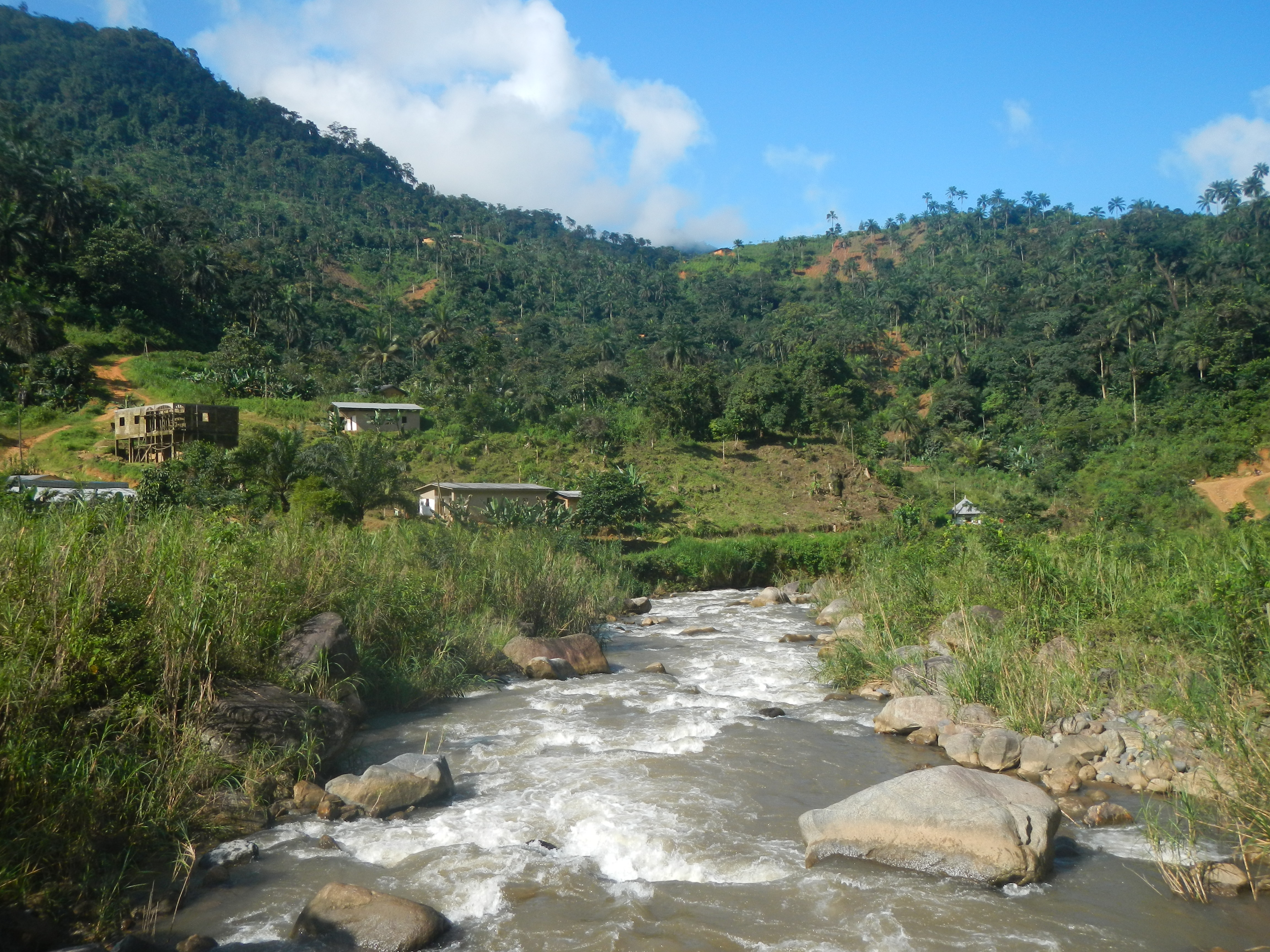 Typical landscape in the middle belt of Wabane (Alongkong), Southwest region of Cameroon